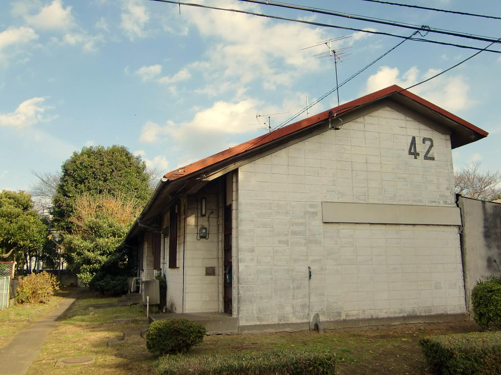 The former terrace house designed by Kunio Maekawa for Asagaya residnce, Tokyo.